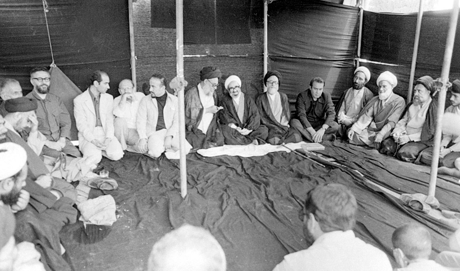 40th Day after death of Mahmoud Taleghani, Behesht-e Zahra, Tehran